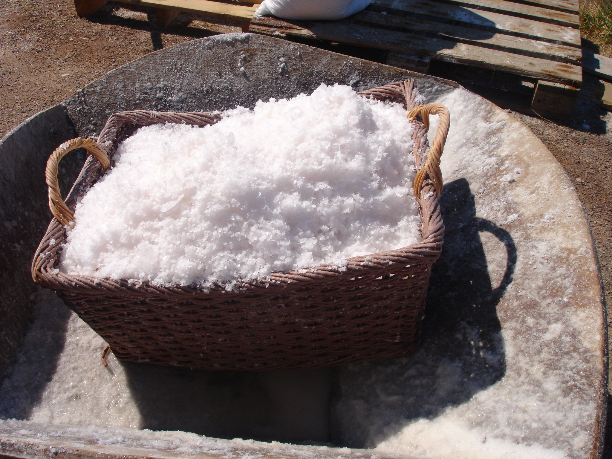 France, Vendée (85), île de noirmoutier, pure Salt